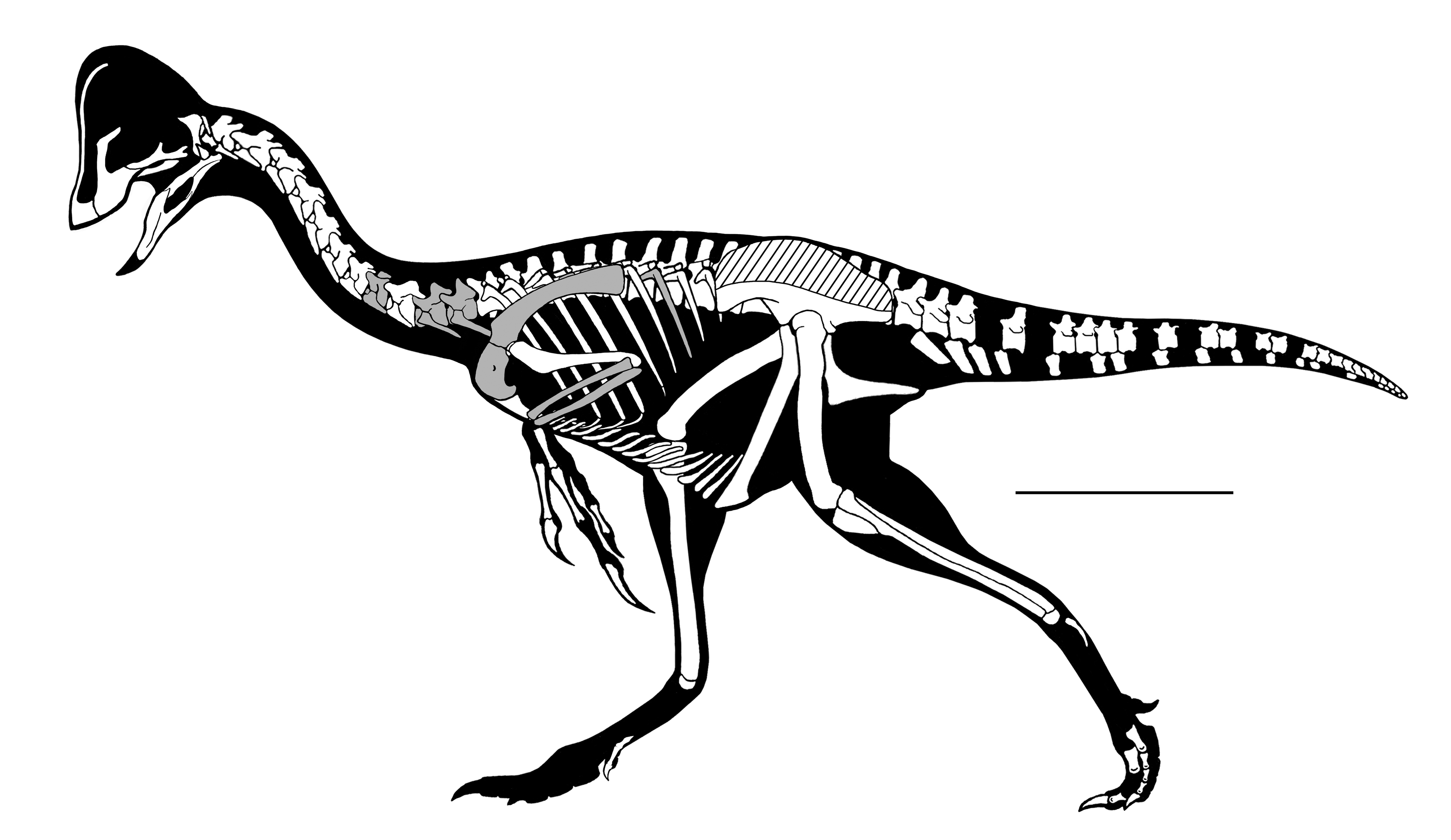 MRF 319, a partial oviraptorosaurian skeleton referred to Anzu wyliei. Skeletal reconstruction in left lateral view, with preserved bones in gray and bones represented in other Anzu specimens in white (hatching indicates heavily reconstructed portions of the ilia. Scale bar = 50 cm (19.7 in)